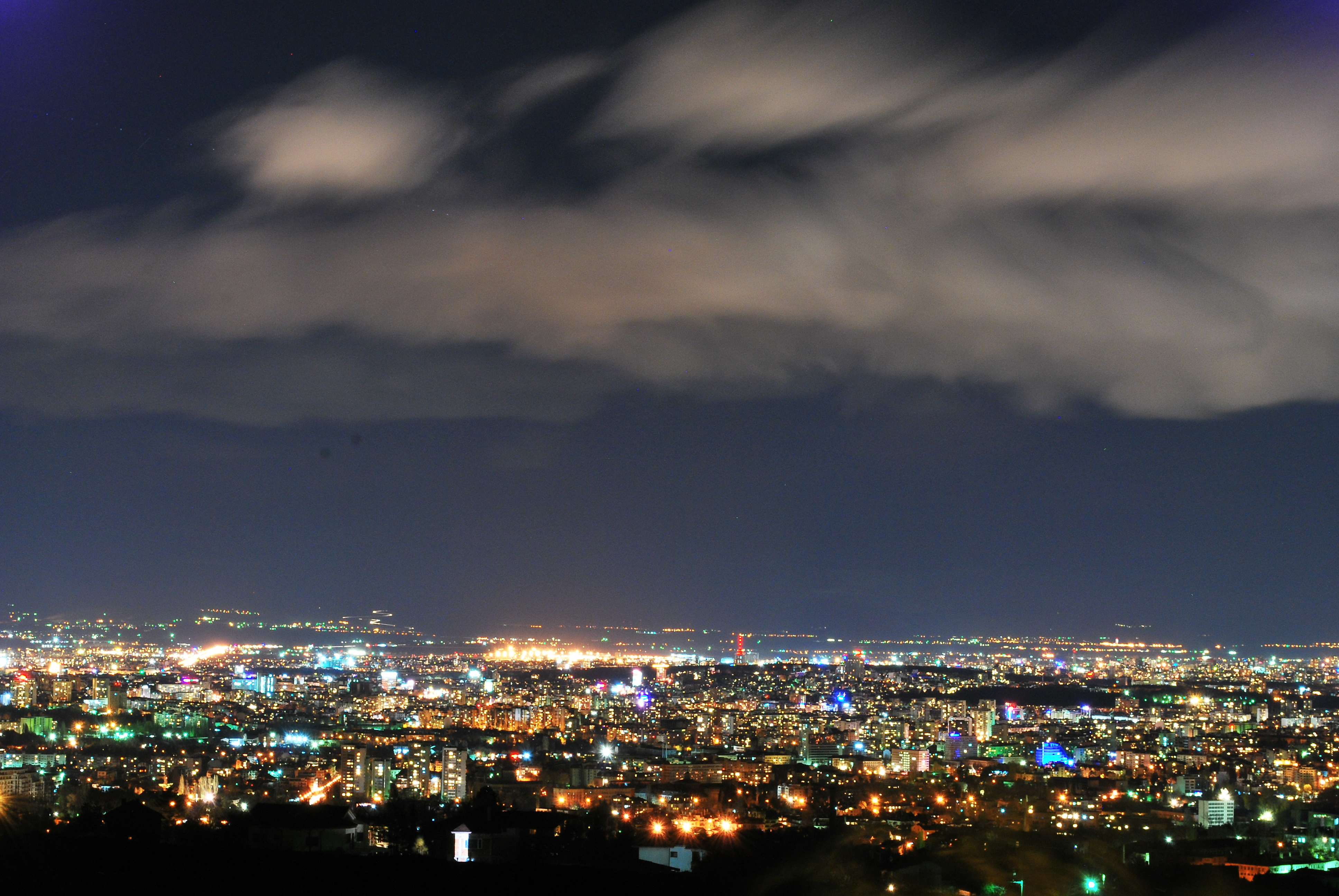 Sofia at night